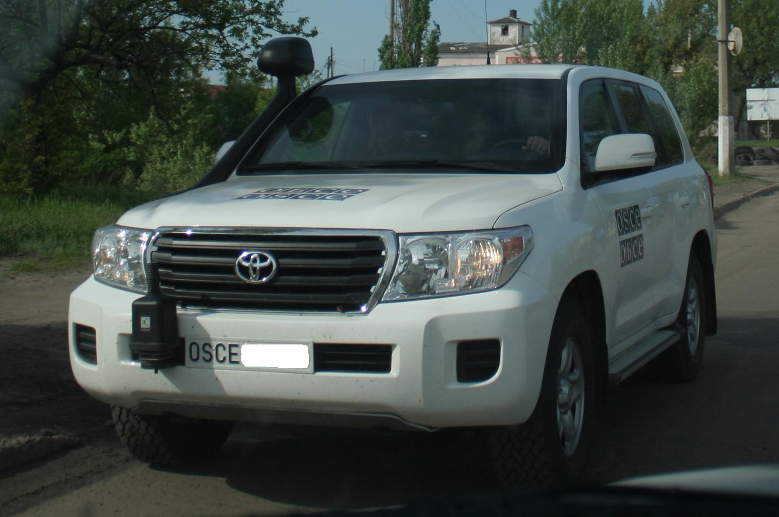 Car of OSCE mission.